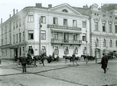 Kleinehs Hotell opposite the Market Square in Helsinki